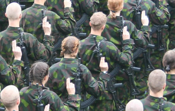 Finnish women serving voluntary military service giving their military oath with male conscripts. The women are recognizable by their longer hair.)